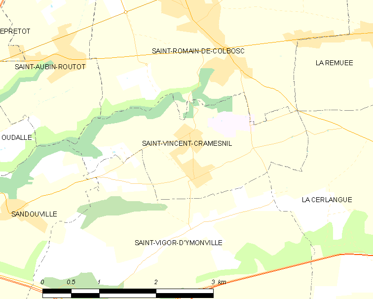 Map of French municipality Saint-Vincent-Cramesnil